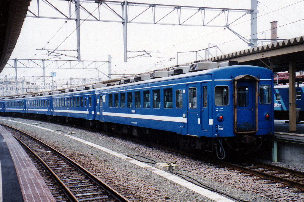 JR Hokkaido PC50-5000(Rapid Train "Kaikyo"):Hakodate Station